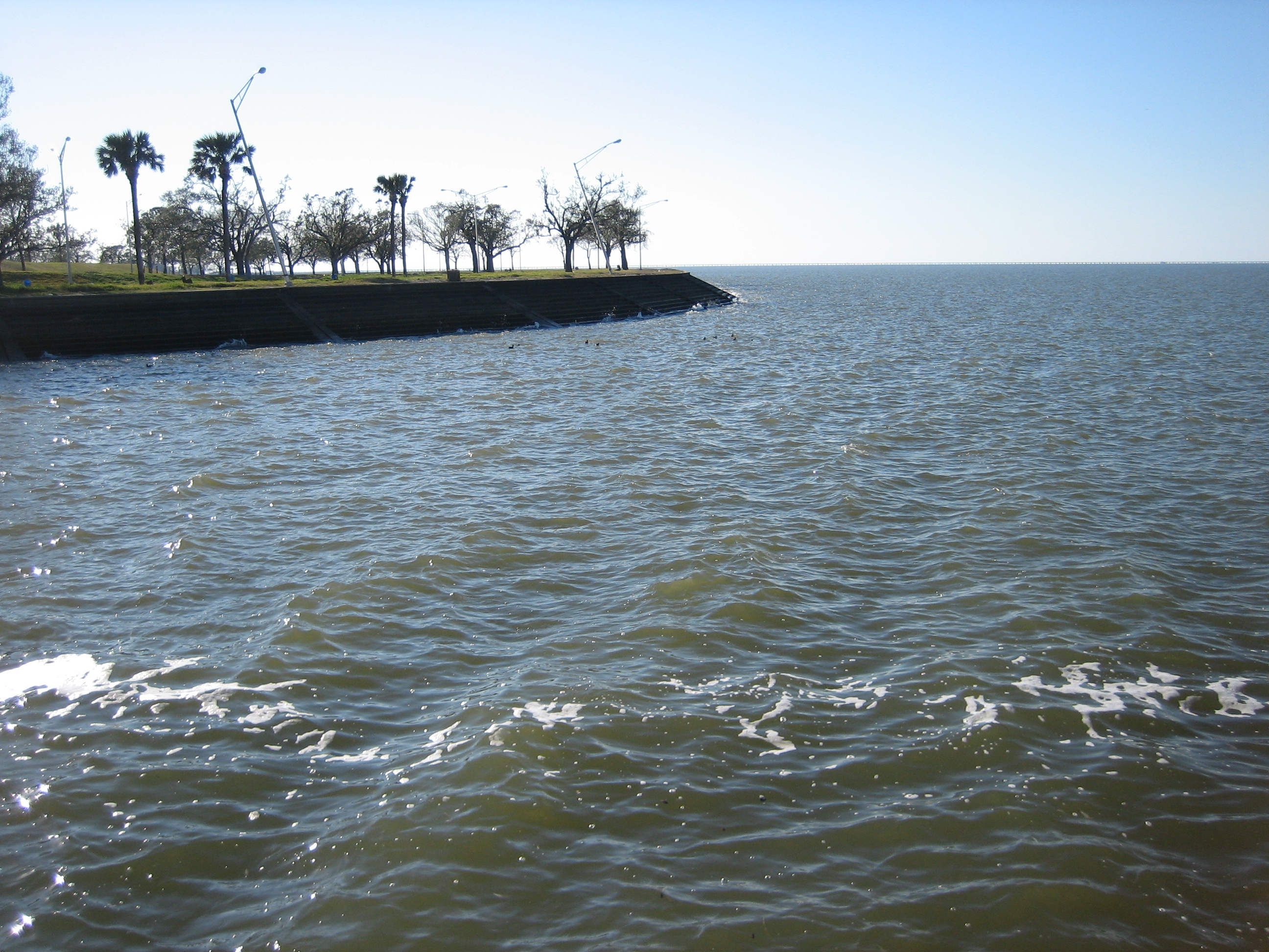 New Orleans: Lake Pontchartrainn end of London Avenue Canal.